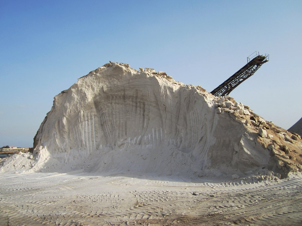 Sea salt is produced at Massawa, Eritrea.